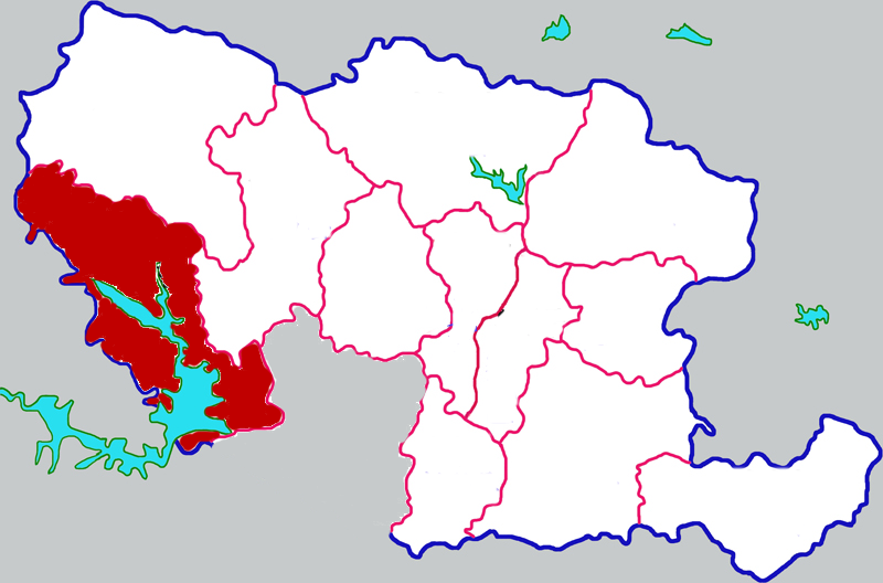 Location of Xichuan county in Nanyang city, China